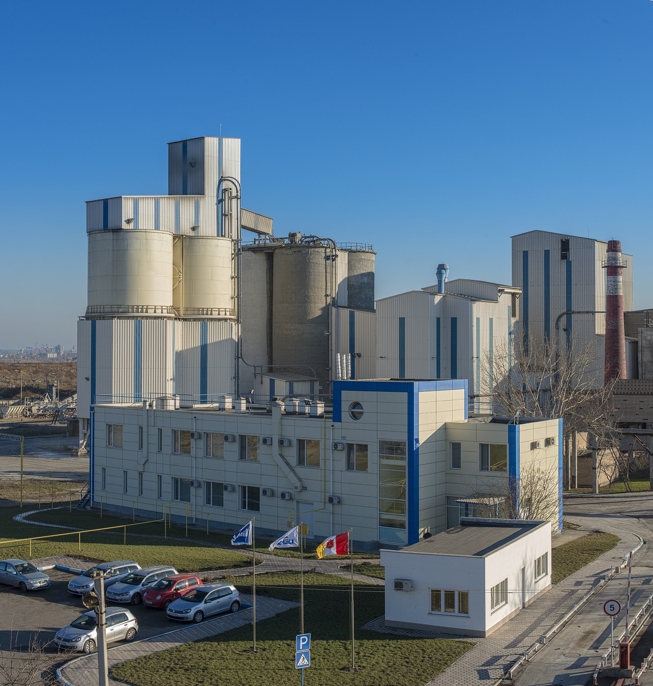 Odessa Cement Plant administrative office